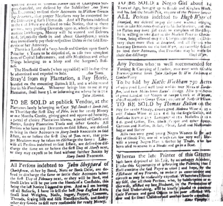 South Carolina Gazette 4 January 1739 bottom of page 3